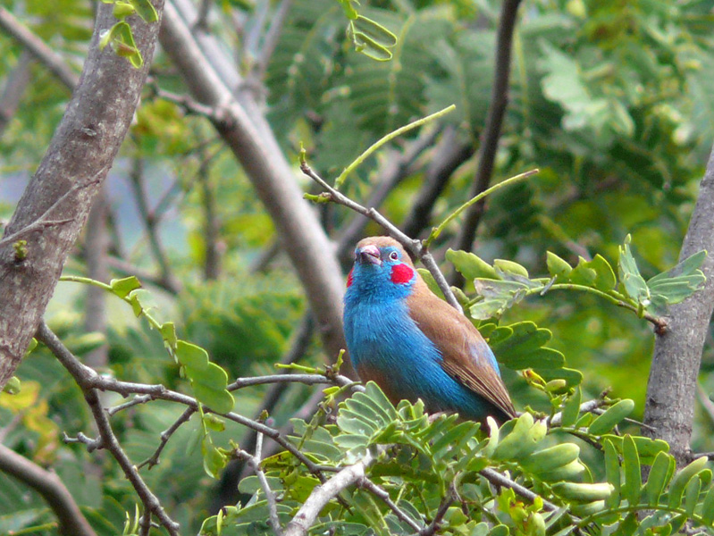 Red-cheeked cordon bleu (Uraeginthus bengalus), photographed in Kenya